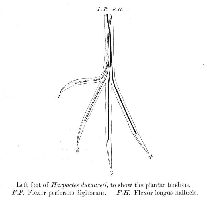 Deep plantar tendons of Harpactes duvaucelii (Scarlet-rumped Trogon)